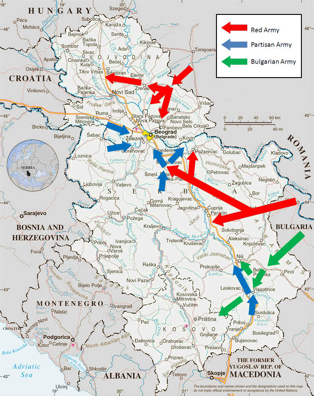 Map of offensive operations in Belgrade in 1944 during the Second World War.